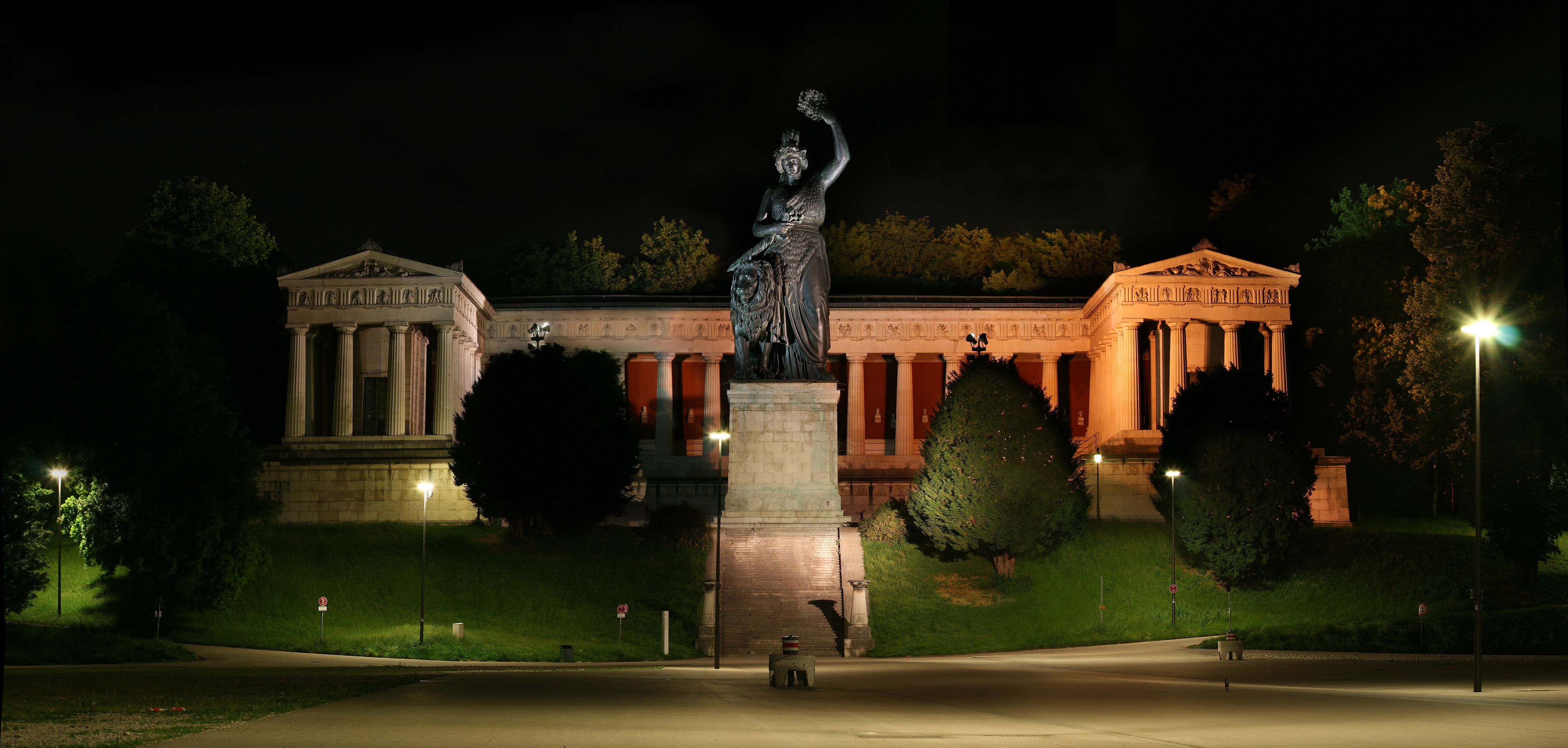 The Bavaria statue (German just 'Bavaria') is a bronze-cast statue of a female figure representing Bavaria's "secular patron saint", the Tellus (Mater) Bavarica ("goddess of the land of Bavaria"), located at the border of the Theresienwiese in Munich, Bavaria, Germany, where the Oktoberfest takes place each September.